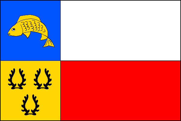 Municipal flag of Týnec nad Sázavou town, Benešov District, Czech Republic.